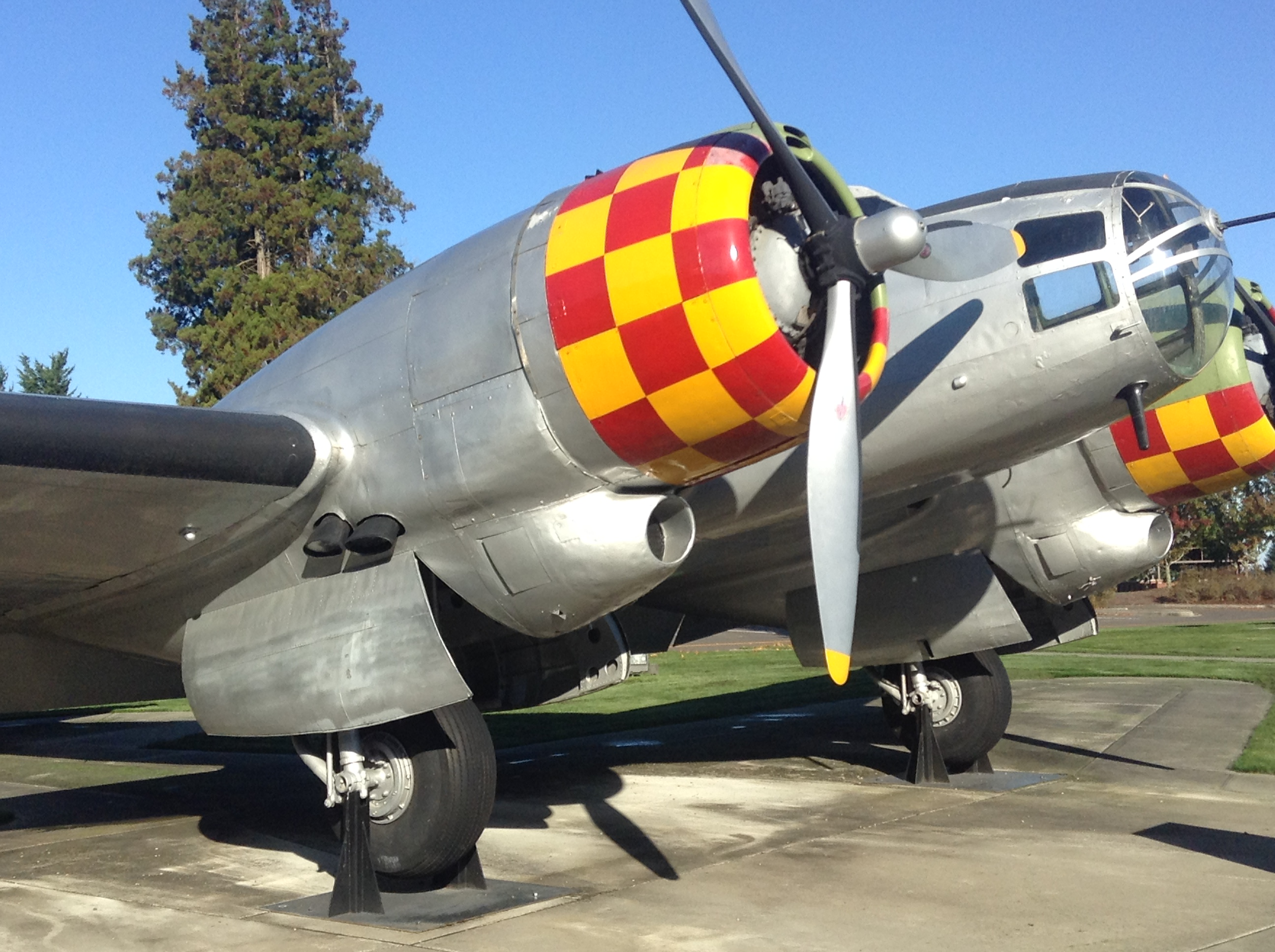 Douglas B-23 Dragon JBLM